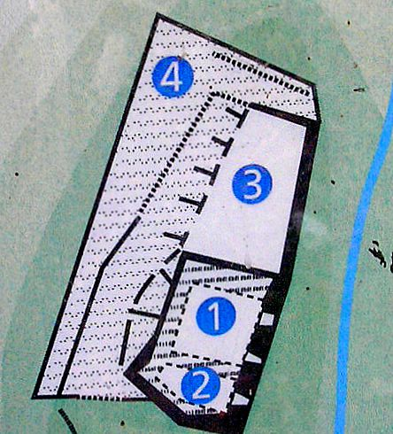 Burgberg castle (Burgberg im Allgäu, Landkreis Oberallgäu, Bavaria, Germany). Plan of the central castle (Information board at the castle)